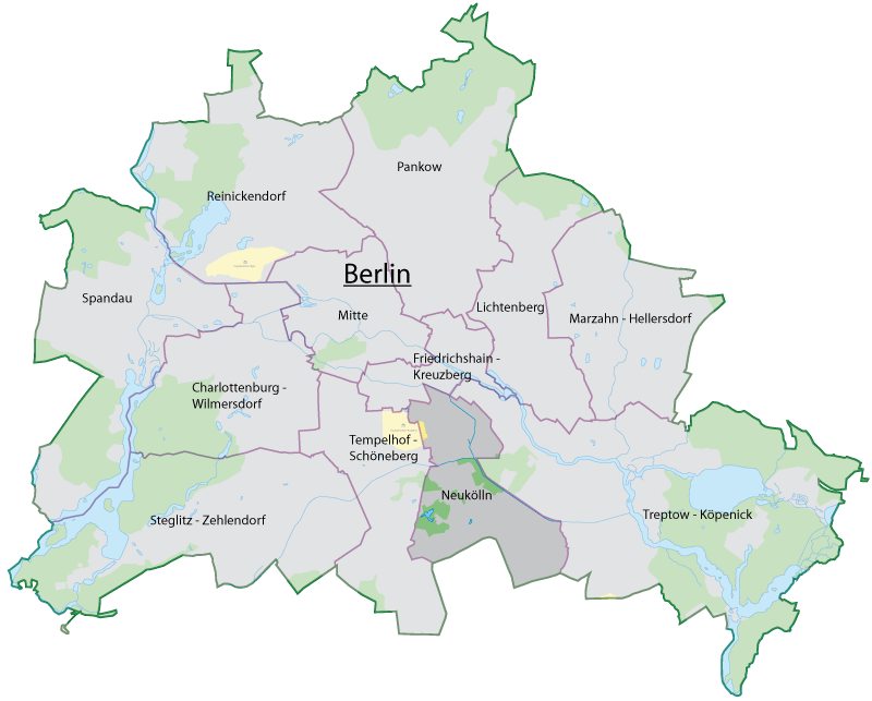 Author: Felix Hahn Source: Based on Water map of Berlin Description: Map of Berlin and its districts.